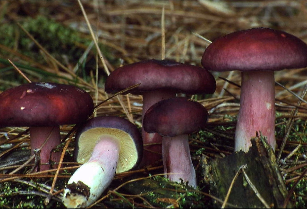 The source of this image is the photographer Frank Gardiner aka Zonda Grattus, who is the sole owner and copyright holder of this photograph and agrees to publish it under the Own Work, Creative Commons Attribution 3.0 License.